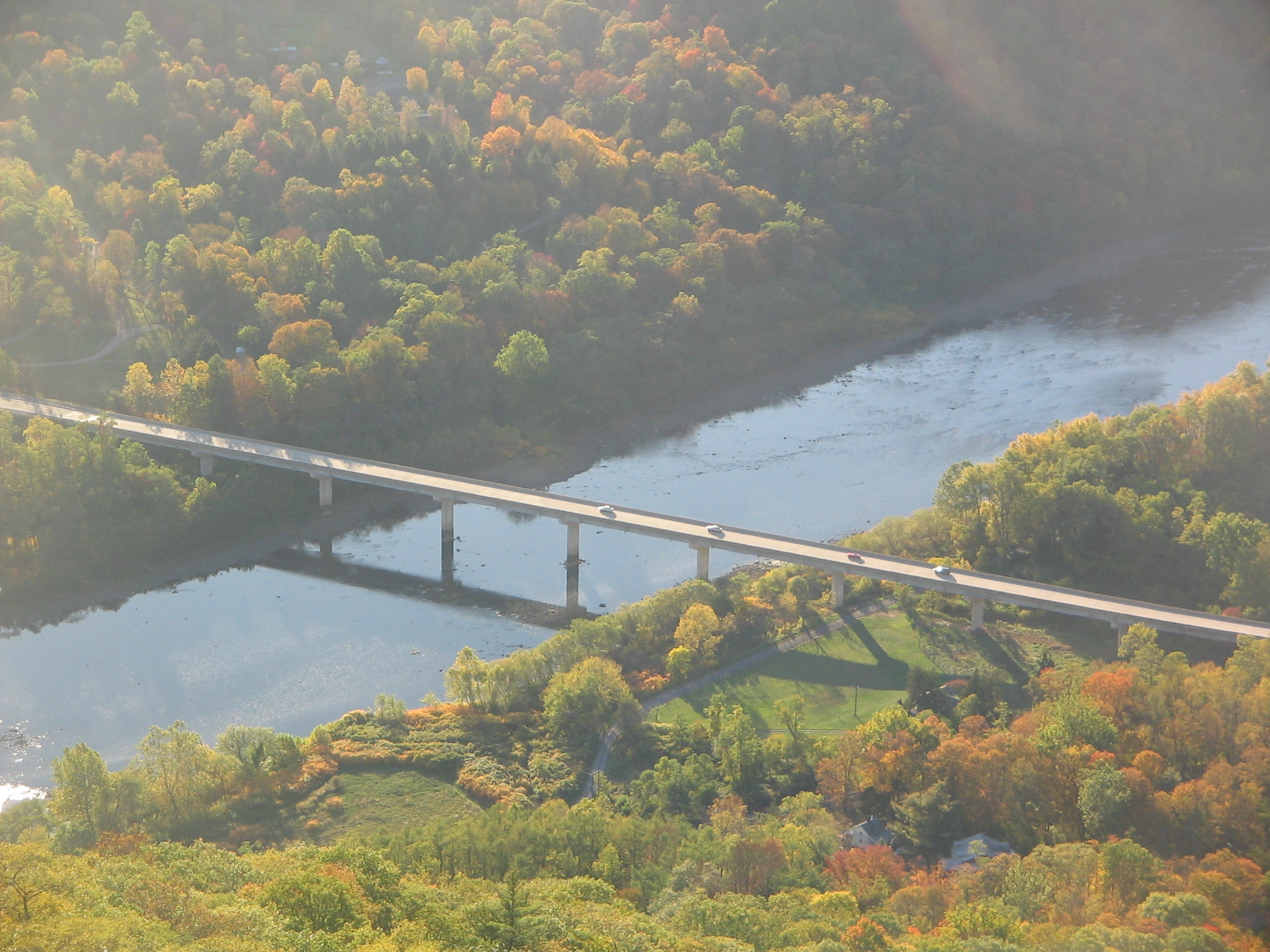 View of the PA Route 120 Bridge over the West Branch Susquehanna River Valley from Hyner View State Park in Clinton County, Pennsylvania, United States